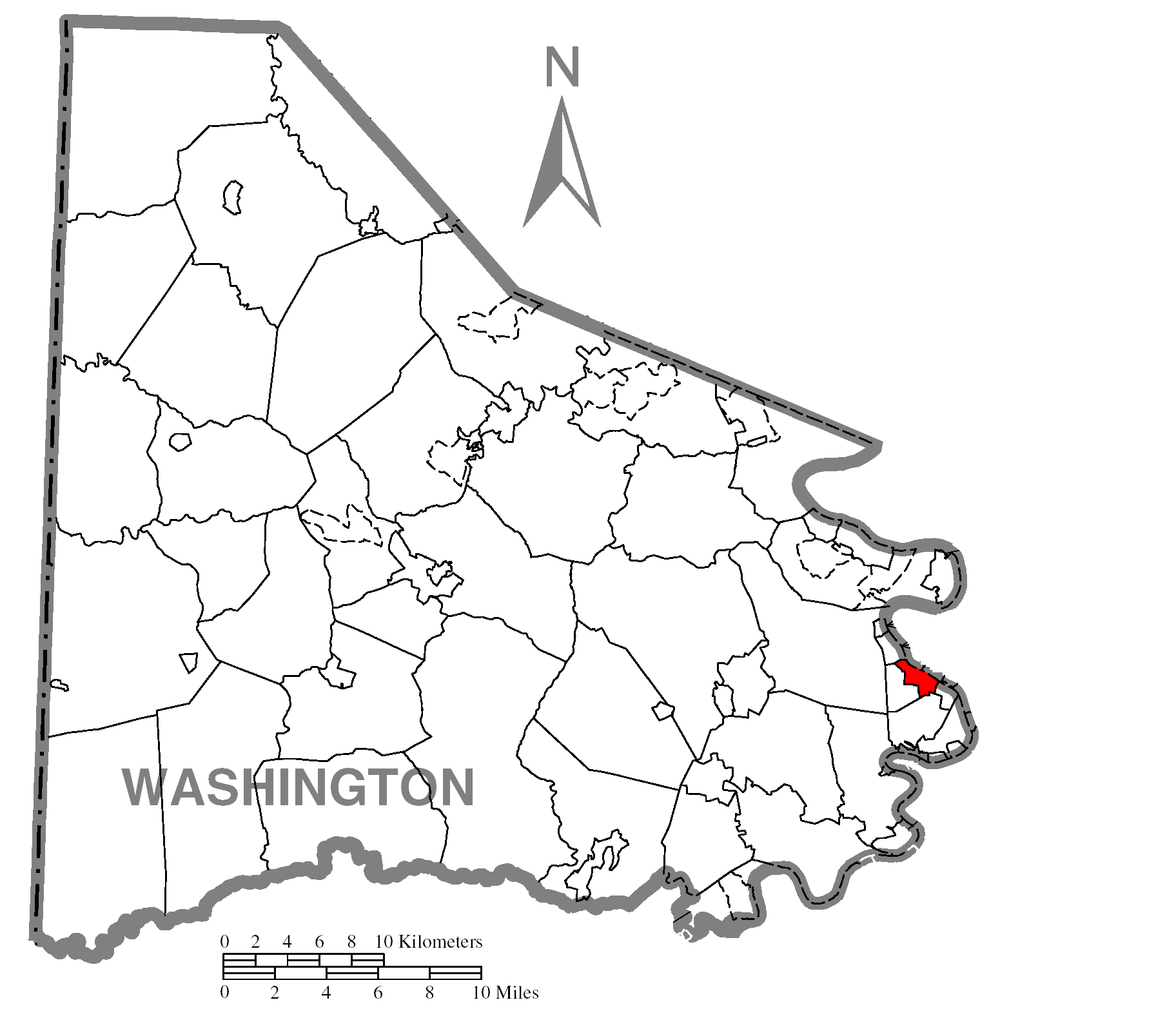 Map of Washington County higlighting Speers.